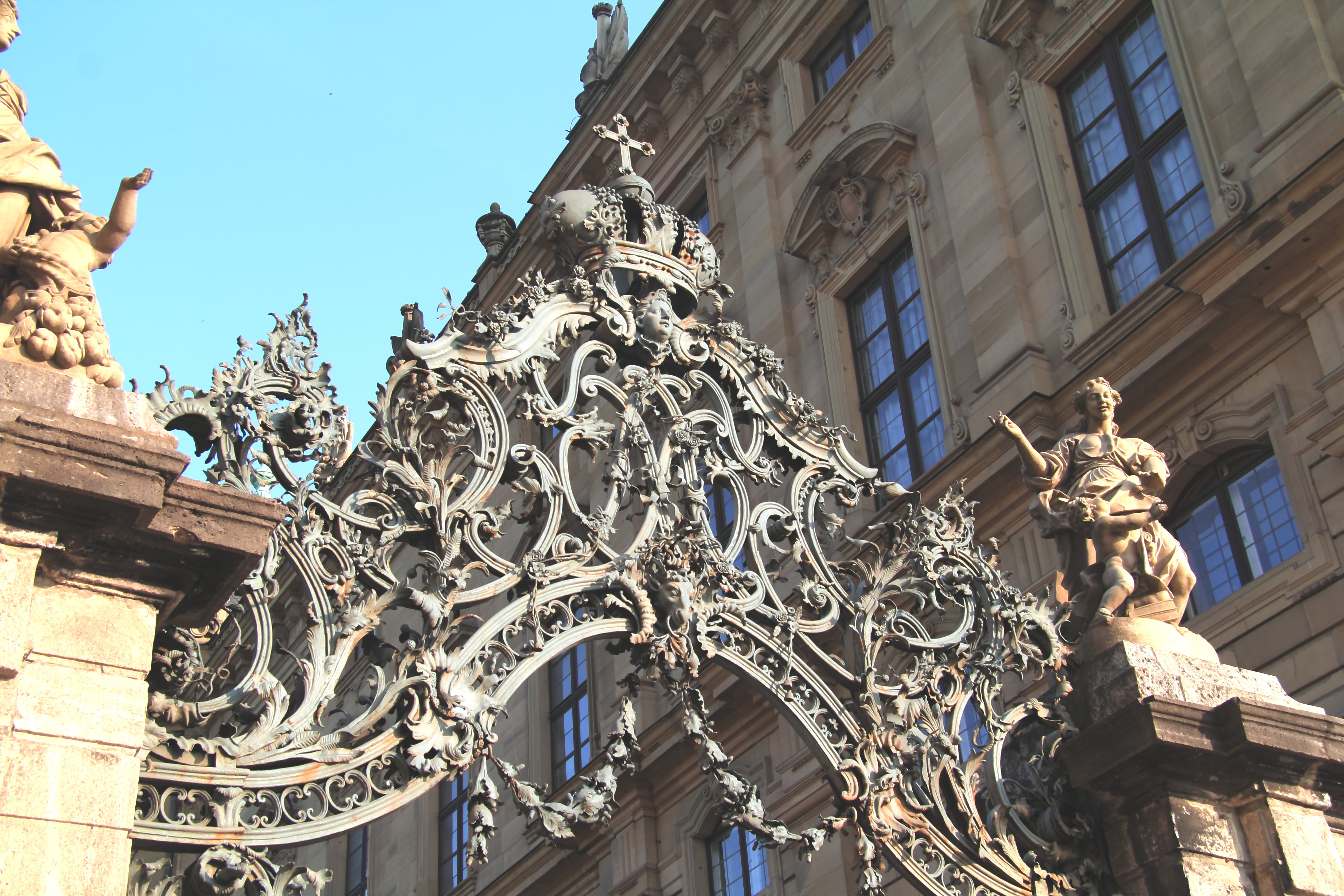 Würzburg Residence, Bavaria, Germany, wrought-iron top of Rennweg Gate, manufactured by artist blacksmith Johann Georg Oegg